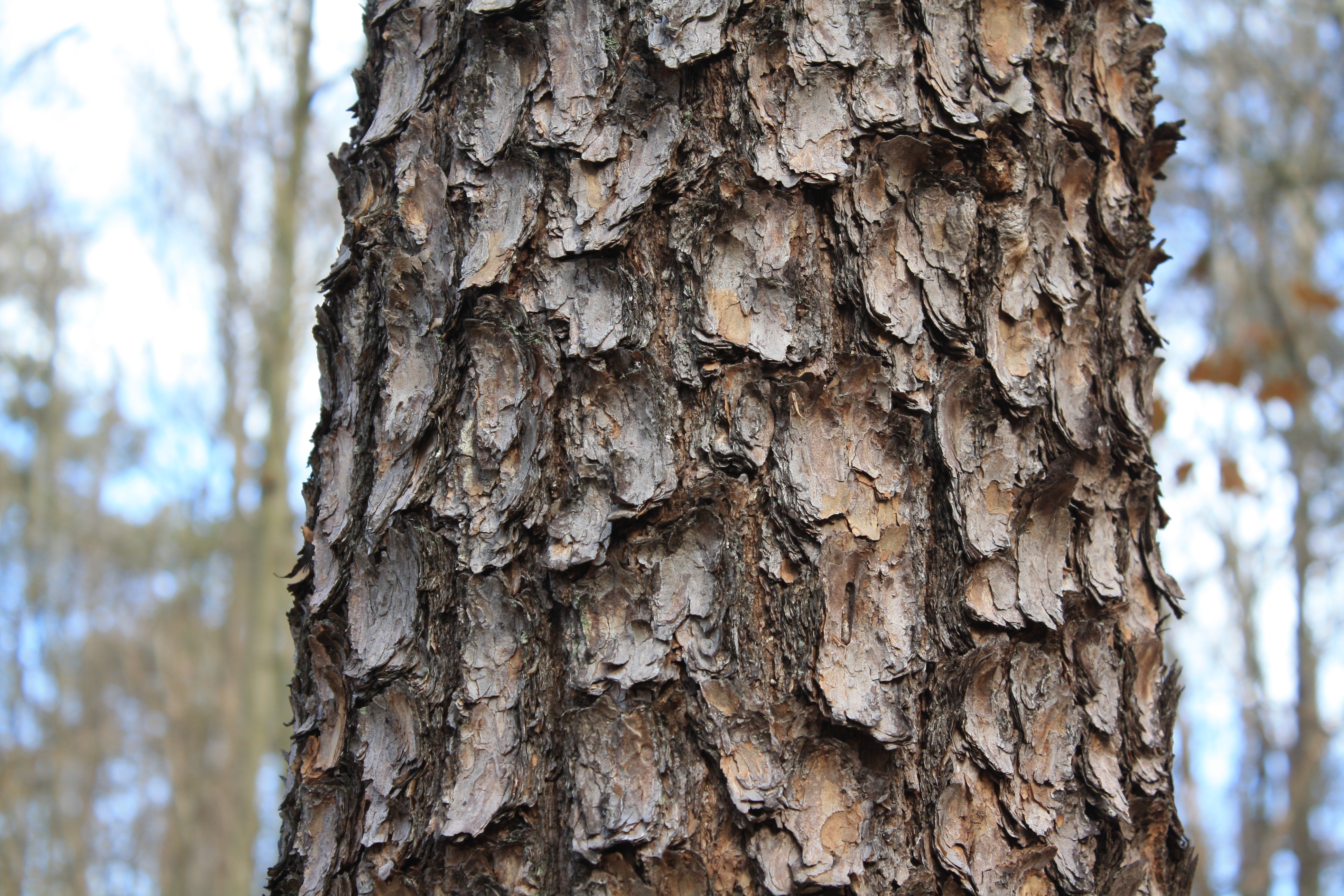 Pine bark.